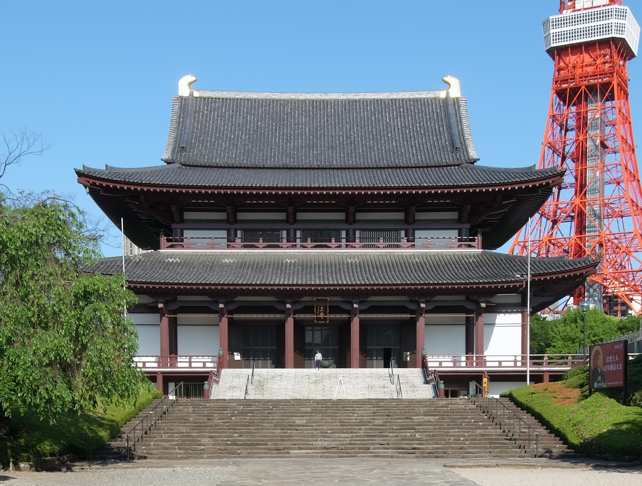 Zojo-ji temple Hon-do, Minato-ku Tokyo Japan.